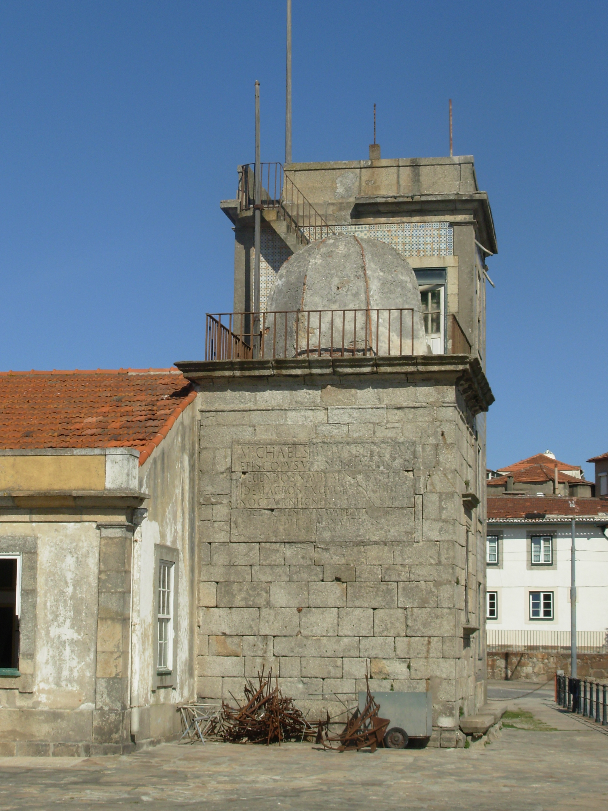 São Miguel-O-Anjo Lighthouse, Tower or Chapel of São Miguel-O-Anjo, in freguesia da Foz do Douro, Porto, Portugal